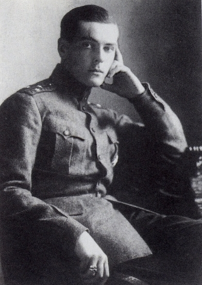 Description Prince Vladimir Pavlovitch Paley en 1916 Date1916SourceTransferred from transferred to RichelieuAuthorVampire Mia Romanov Prince Vladimir Pavlovitch Paley en 1916